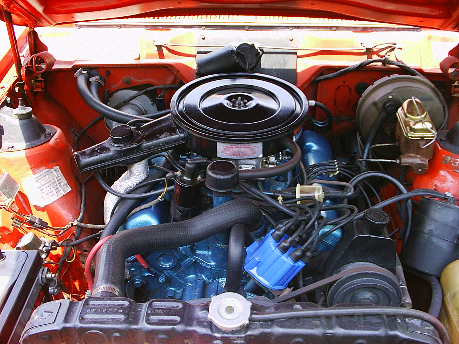 The 304 Cubic Inch Displacement (5 L) V8 engine in a 1973 Hornet 2-door hatchback by American Motors Corporation (AMC). This car is finished in "Trans Am Red" (paint code D-7). Car and Driver magazine described this new addition to the Hornet line as "the styling coup of 1973" and AMC used this quote in their advertising. The base MSRP of this hatchback model was $2449.